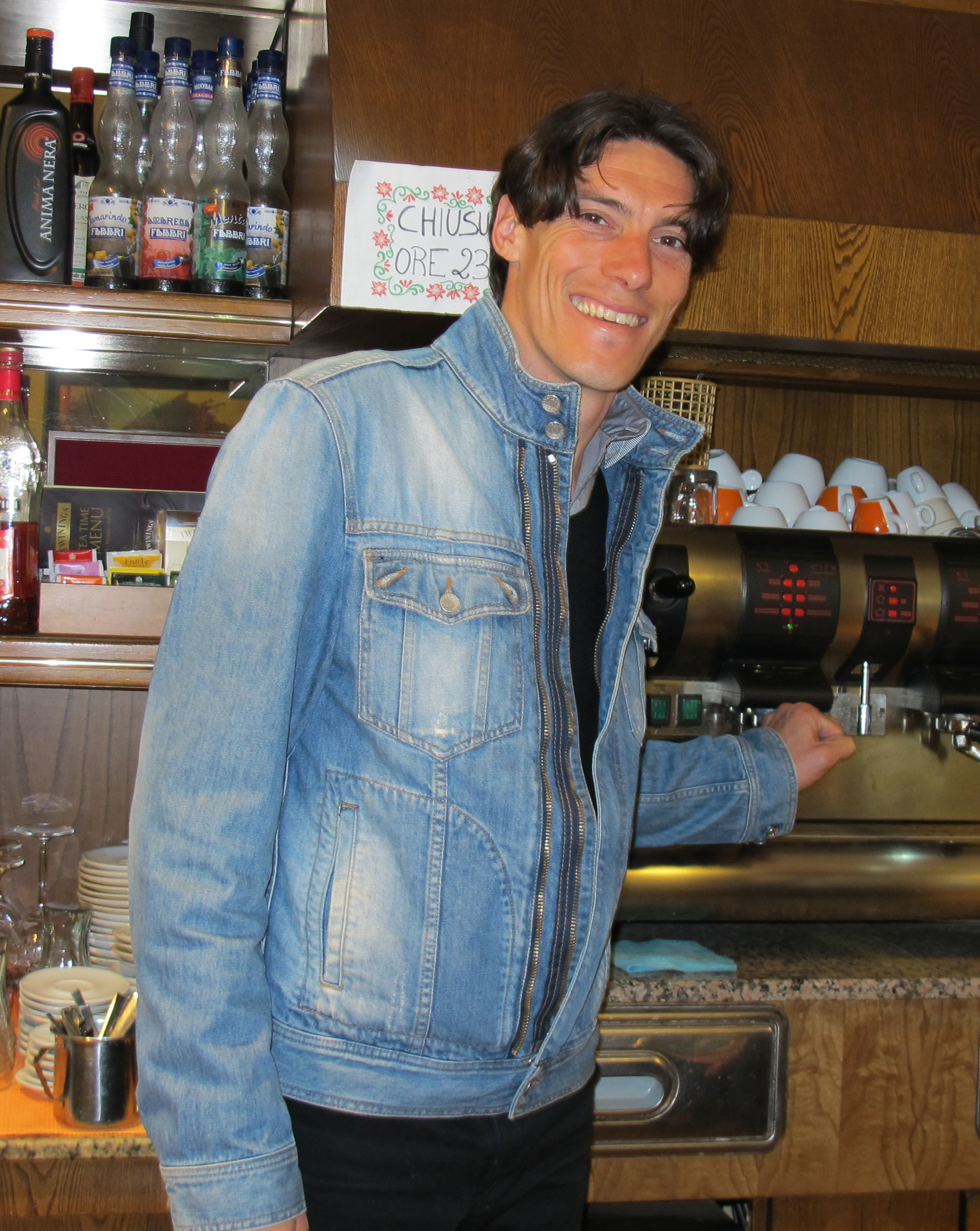 Riccardo Nardini in Dogana Nuova, Fiumalbo, on Easter 2012.